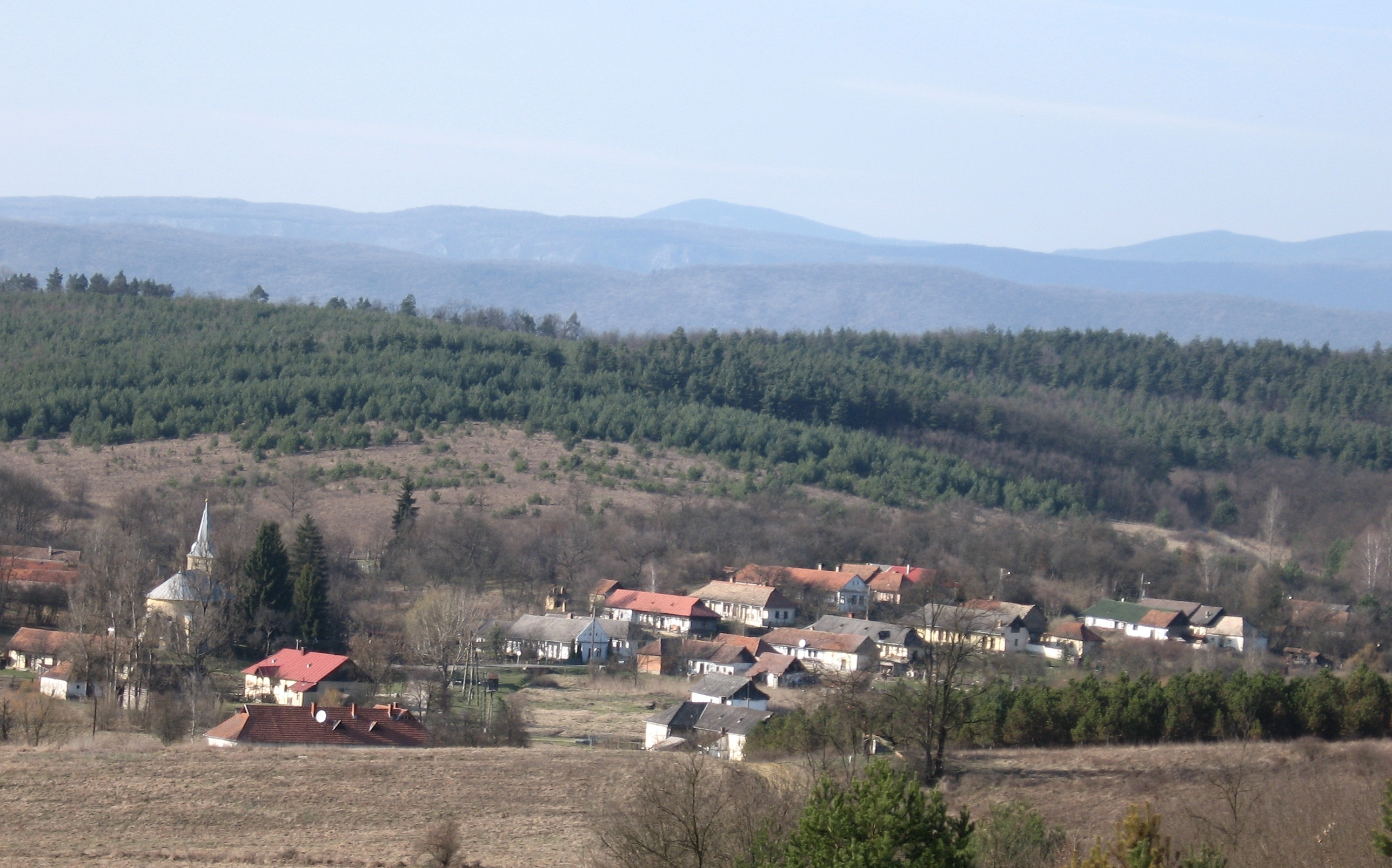 View of Tornabarakony, Hungary